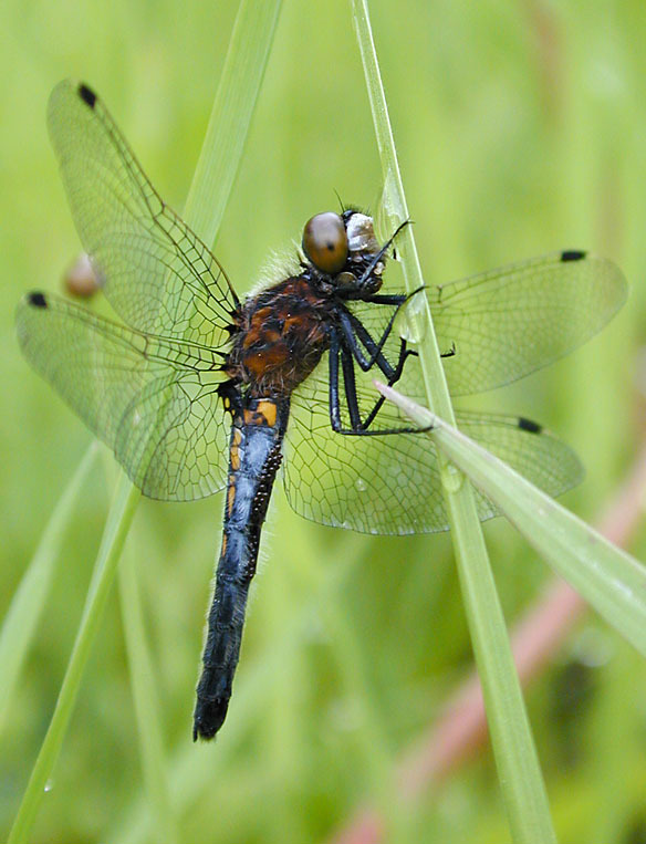 juvenile female Dot-Tailed Whiteface (Leucorrhinia intacta) Taken in Itasca State Park, Minnesota. I believe that the poppyseed-like things on the underside of the abdomen are parasitic mites.